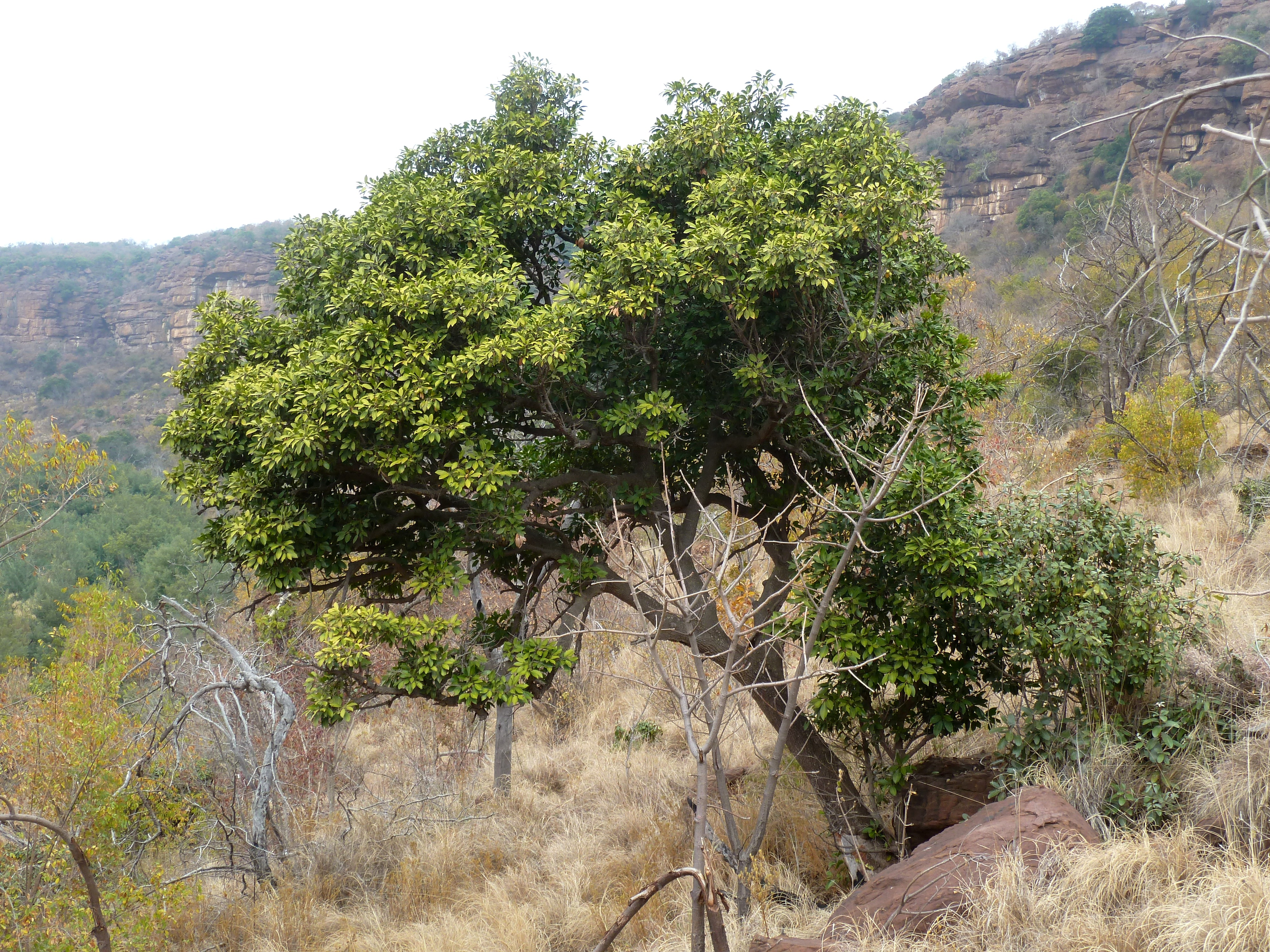 Habit of a Transvaal red milkwood at Little Eden, De Tweedespruit conservancy, Gauteng